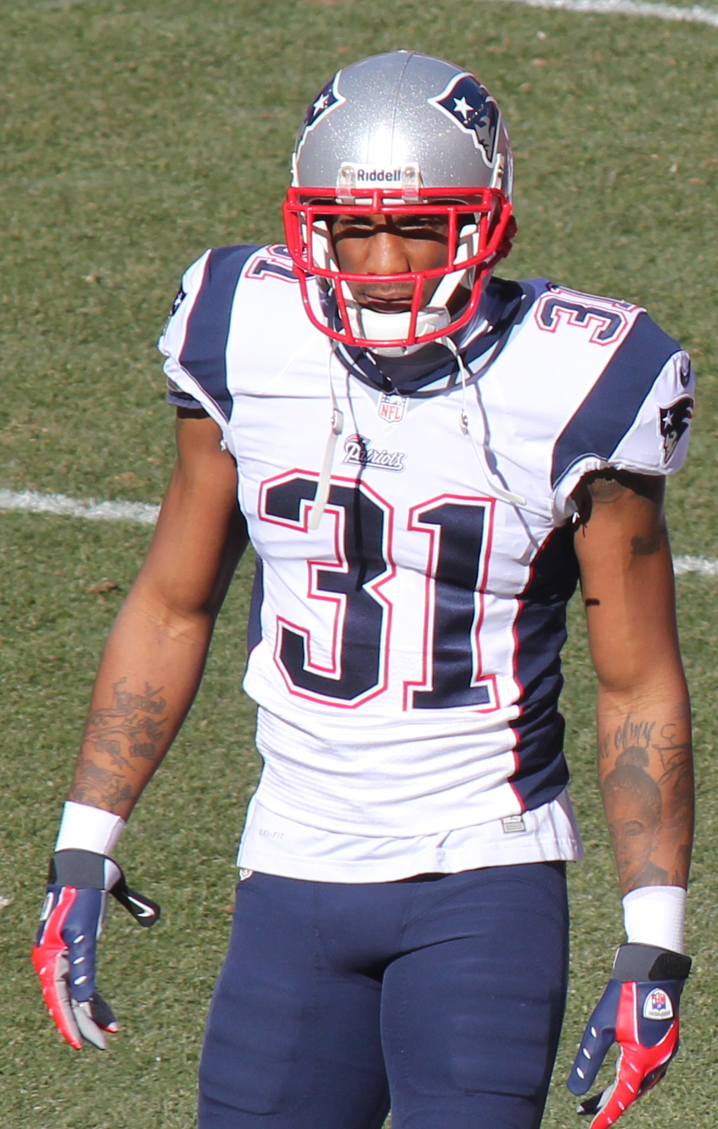 Aqib Talib, a player on the National Football League.